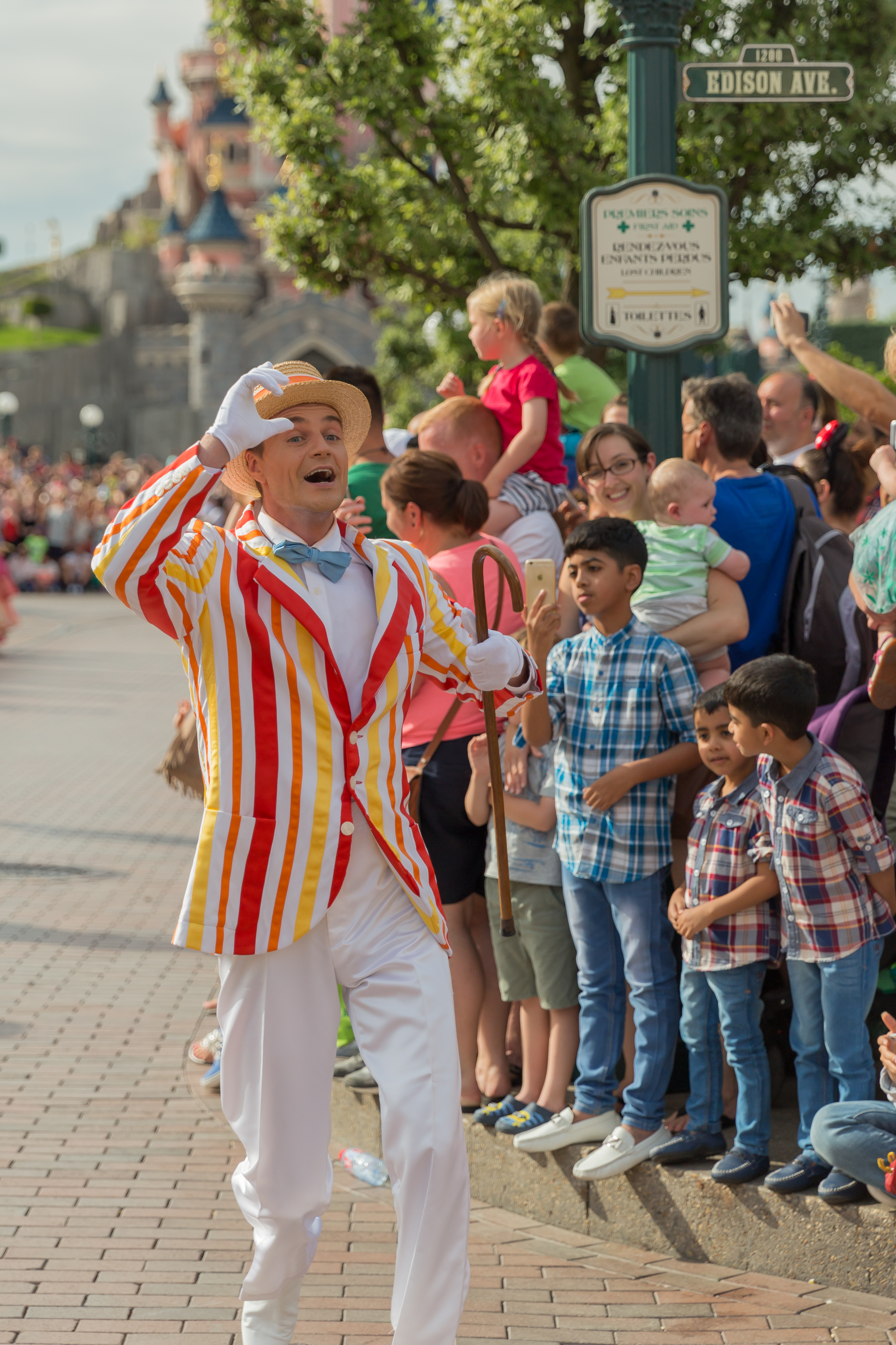 Bert in Mary Poppins in the Disney Magic On Parade at Disneyland Paris.